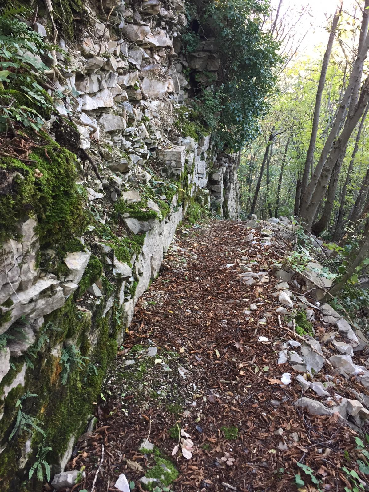 Attimis Inf